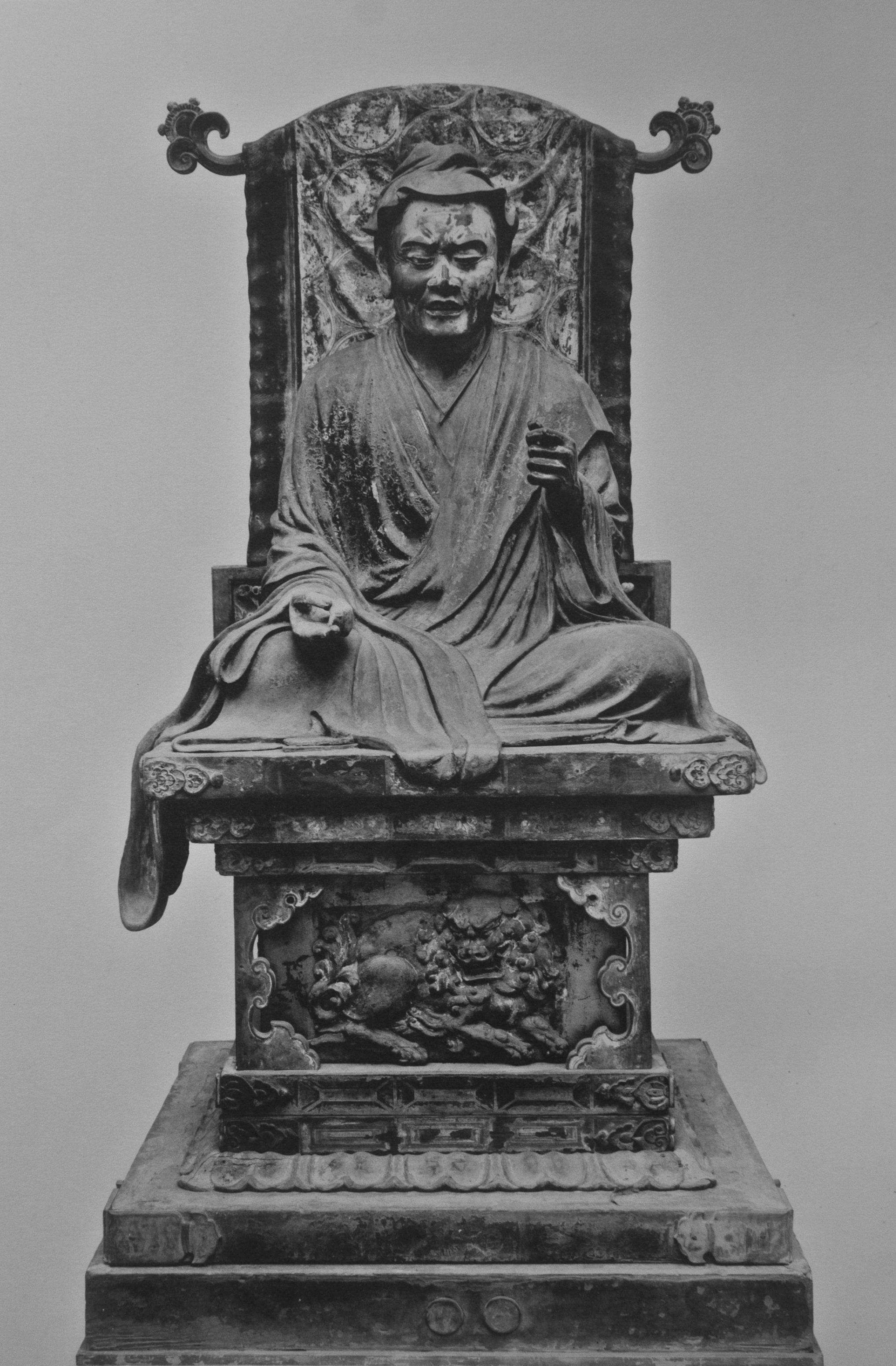 Kofukuji, Nara, Japan